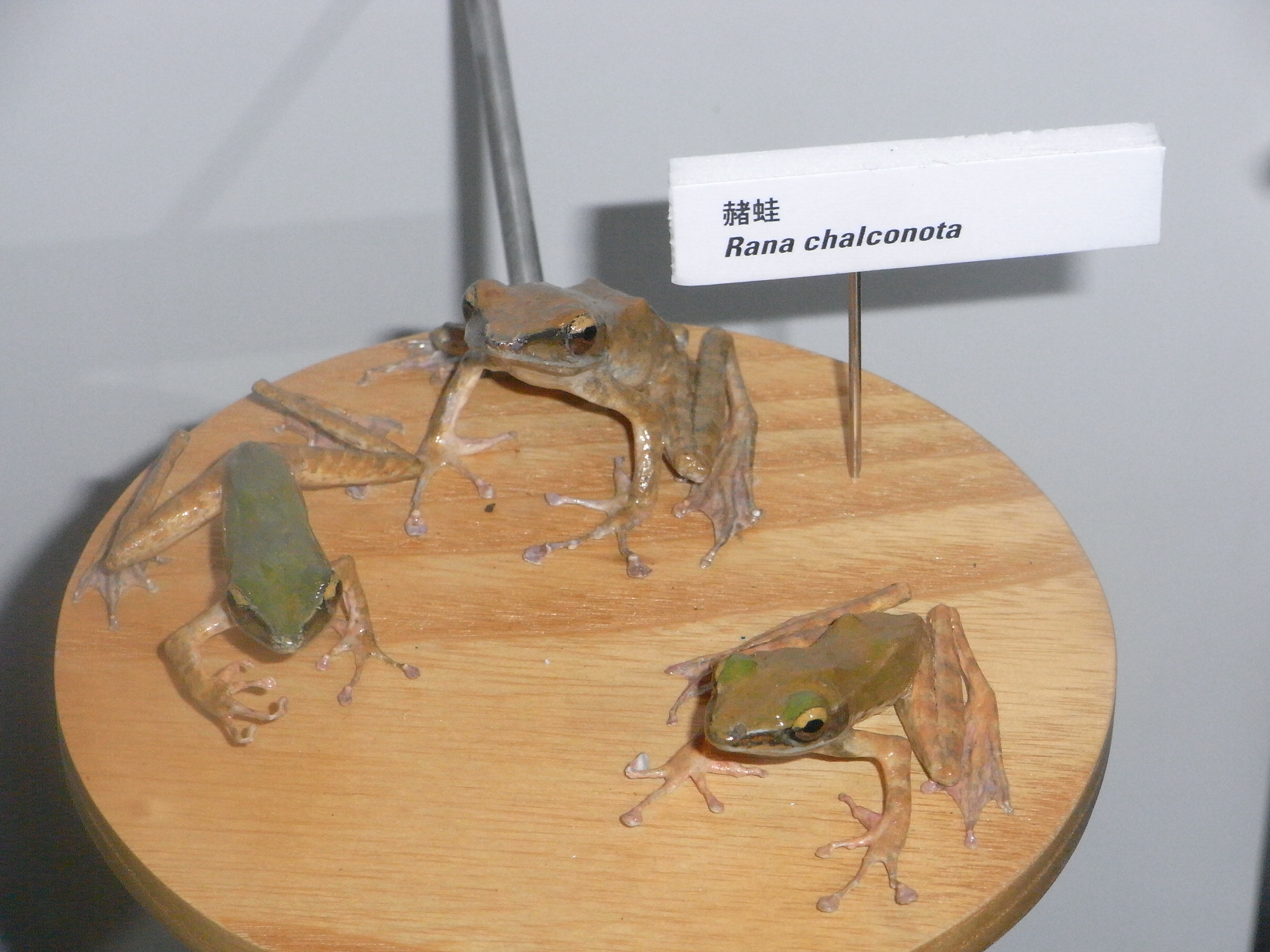 尖沙咀香港科學館 Food chain, 食物鏈標本